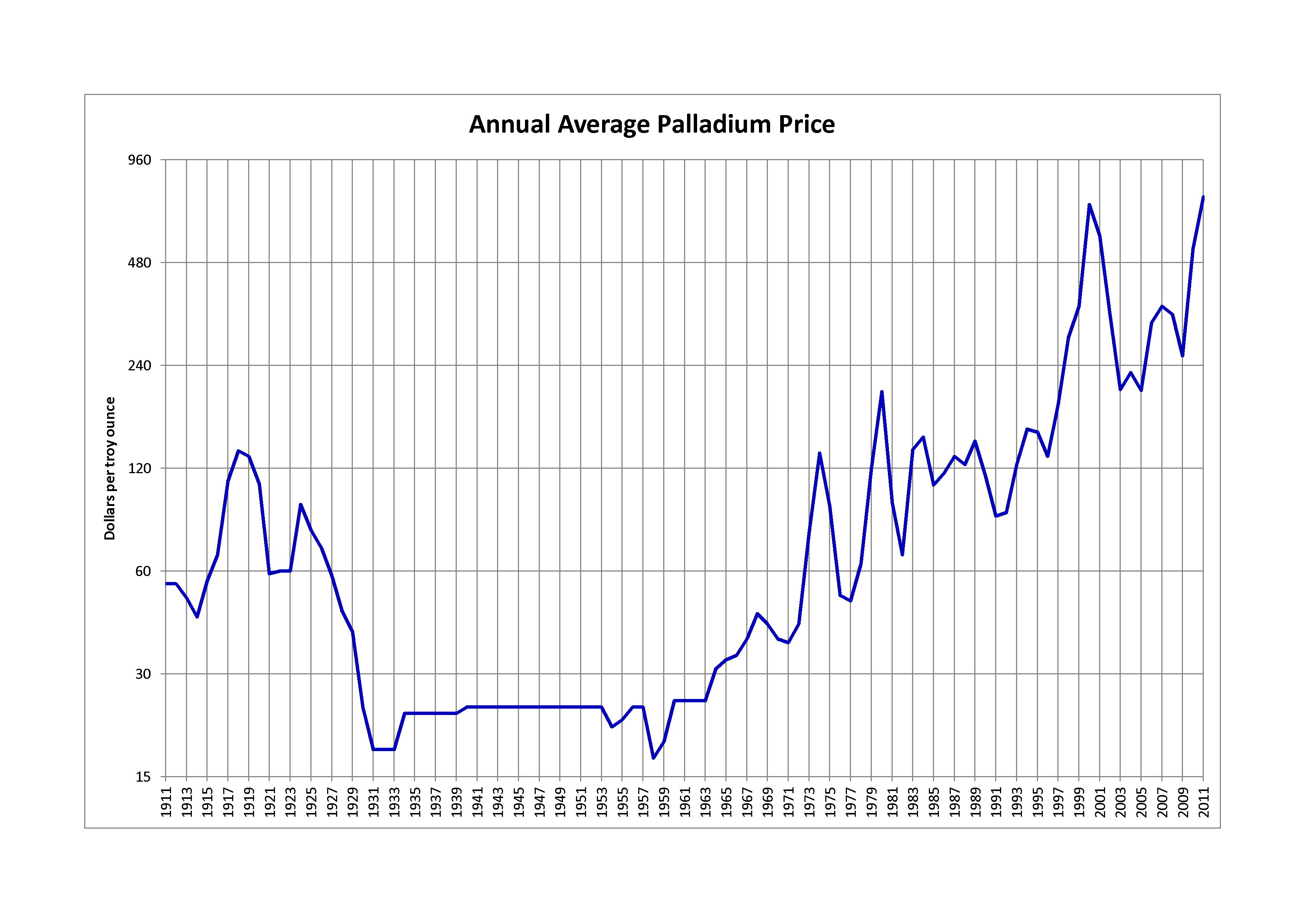 Palladium price from 1911 to 2011 (annual average in dollars per troy ounce)